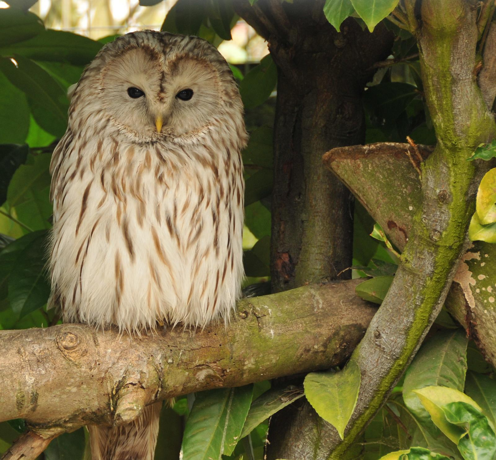 A Ural Owl at Banham Zoo, Norfolk, England.